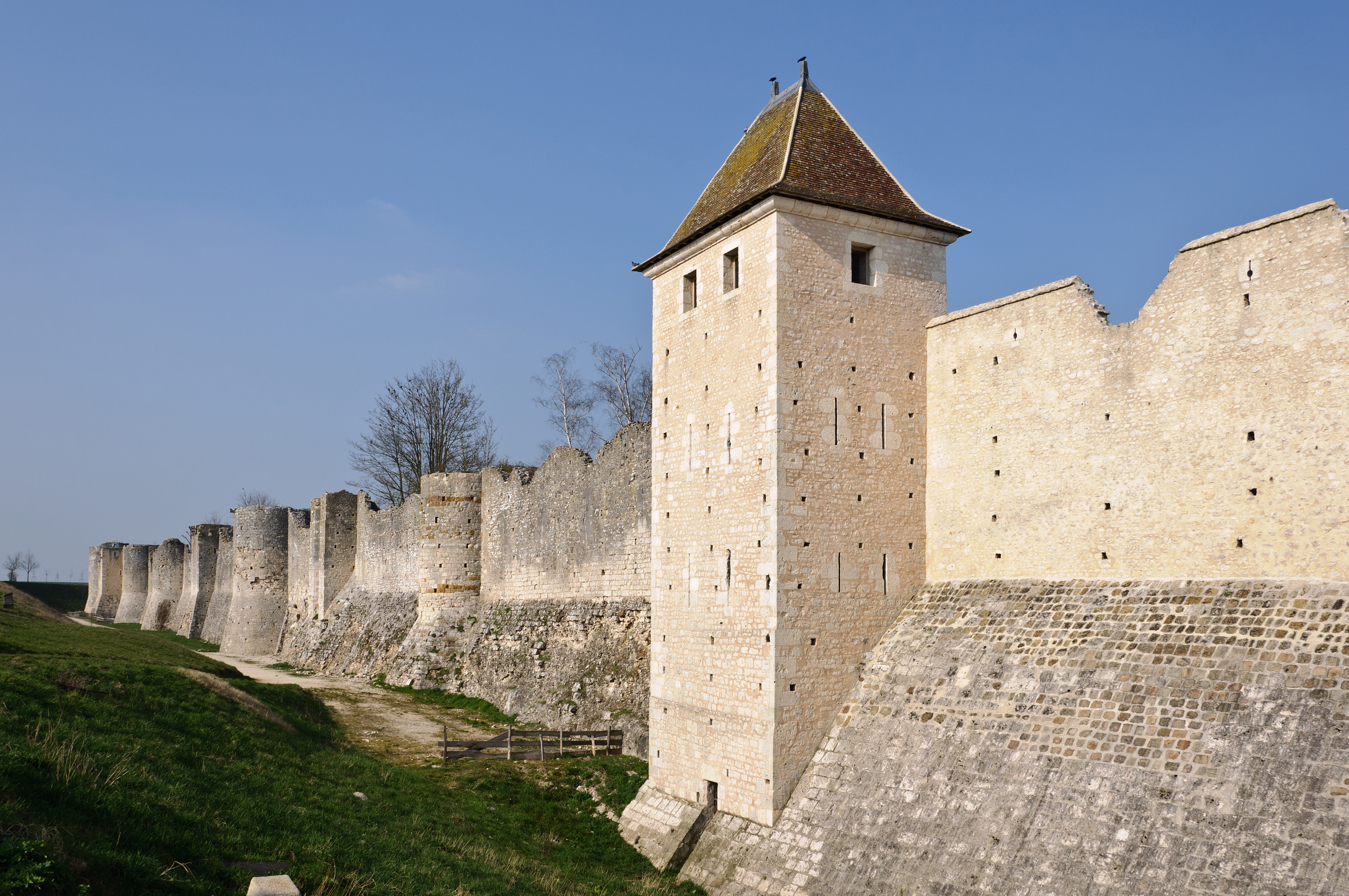 Medieval fortifications of Provins, Seine-et-Marne, France. Here seen from the porte Saint-Jean door to the Tour aux Engins.